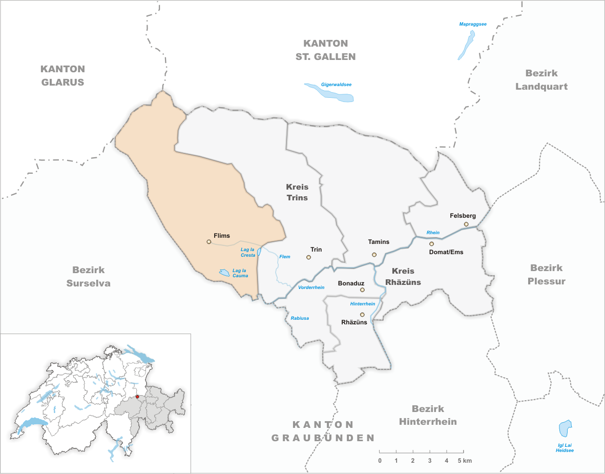 Municipality Flims